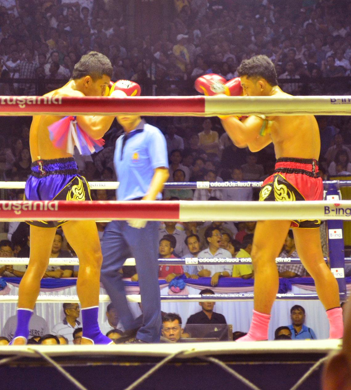 Kongpet vs Pakorn